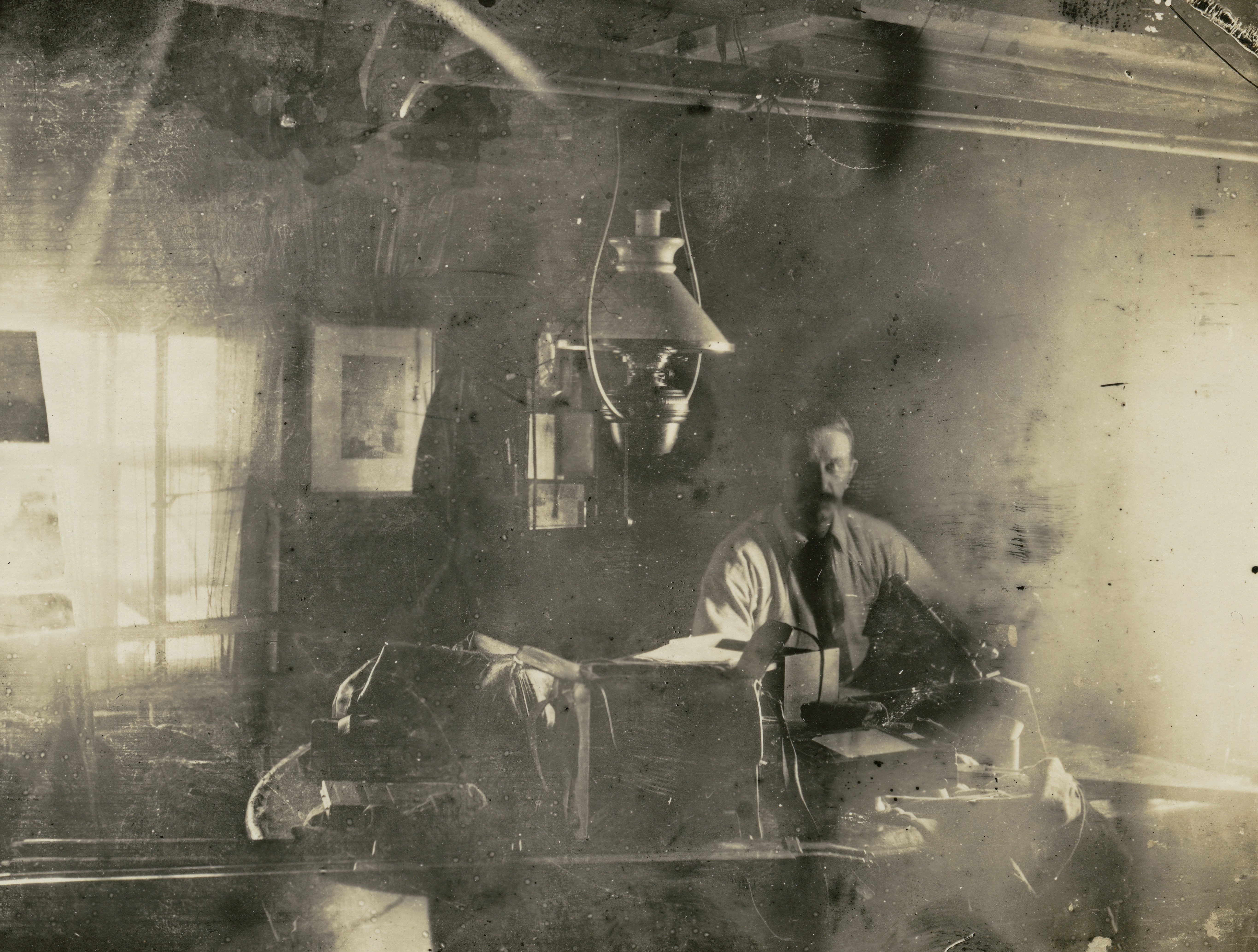 Frederick George Jackson, British officer, arctic researcher and leader of the expedition to Franz Joseph Land 1894-1897, at the table in the cottage at Elmwood. One of the pictures from the expedition with arctic ship toward the North Pole in the period June 24, 1893 to August 13, 1896. According to the plan, the ship was to drift in the ice with the ocean current from the coast of Siberia across the North Pole to Greenland. In March 1895, Fridtjof Nansen, together with a companion, set out with dogsledges on a hazardous expedition on skis, in an attempt to reach the pole itself.